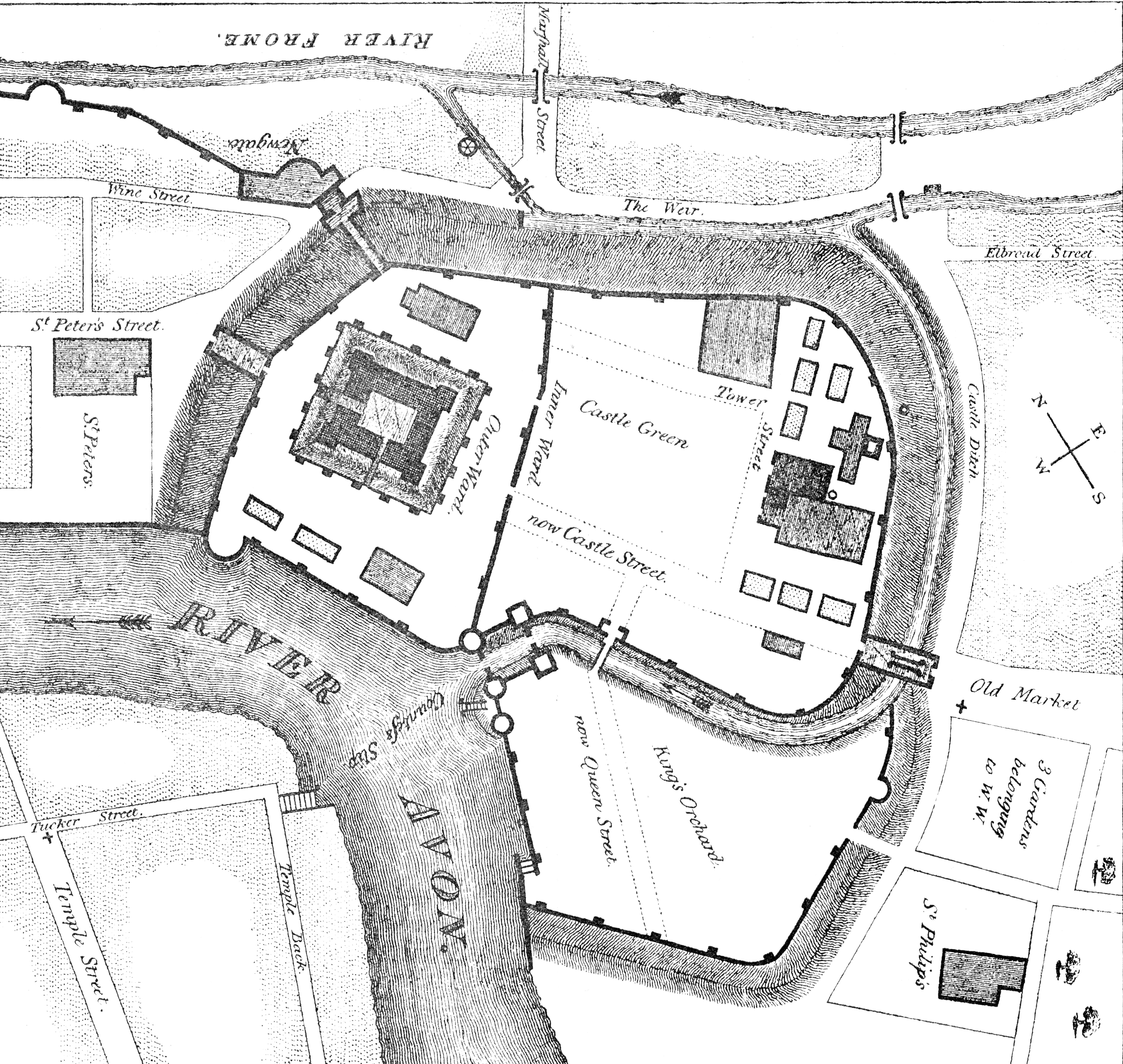 Bristol Castle 'in ancient times' from Samuel Seyer's History of Bristol